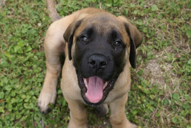 A male Mastiff (A.K.A. English Mastiff) puppy.